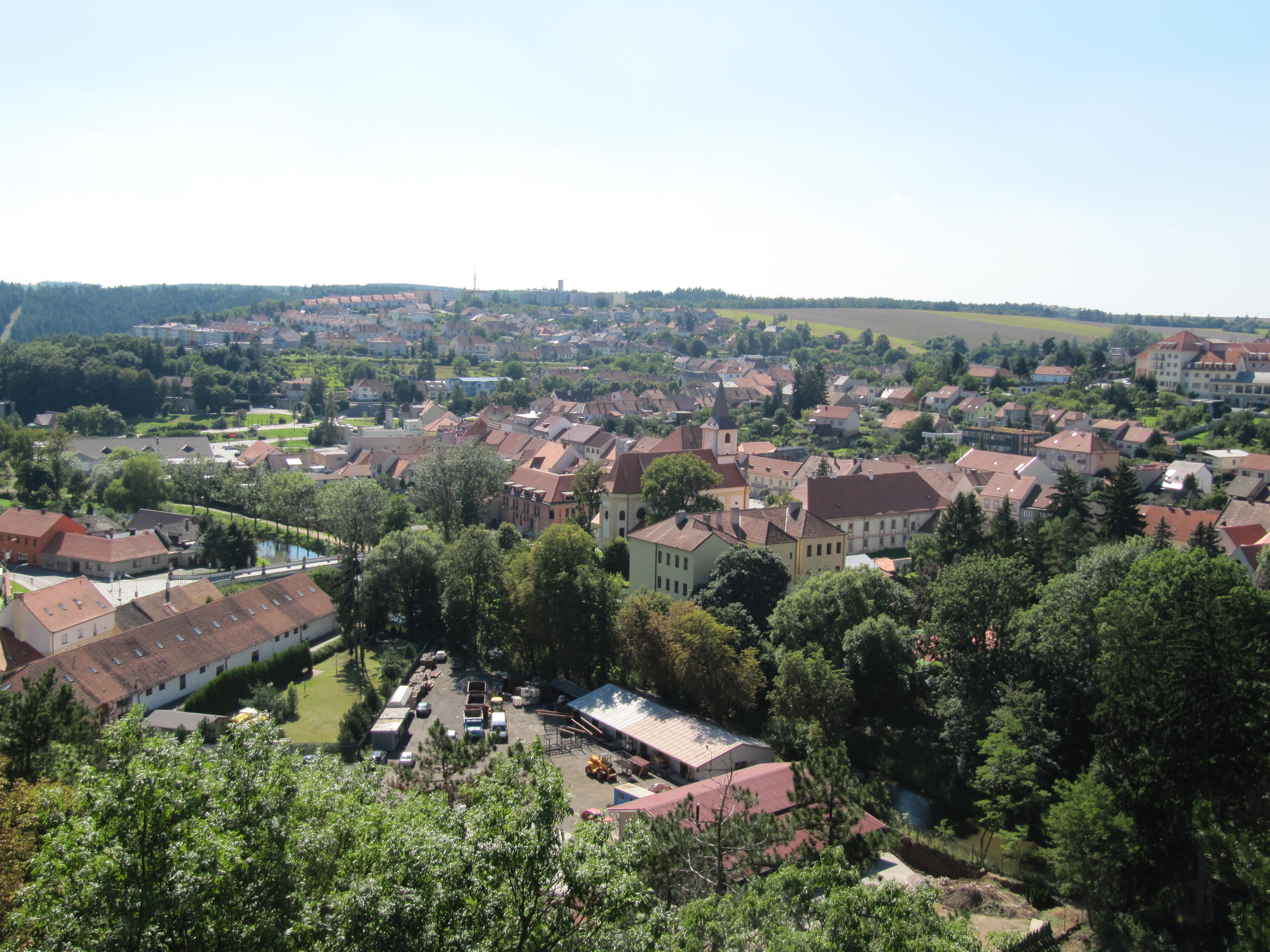 Náměšť nad Oslavou in Třebíč District, Czech Republic. View from castle.